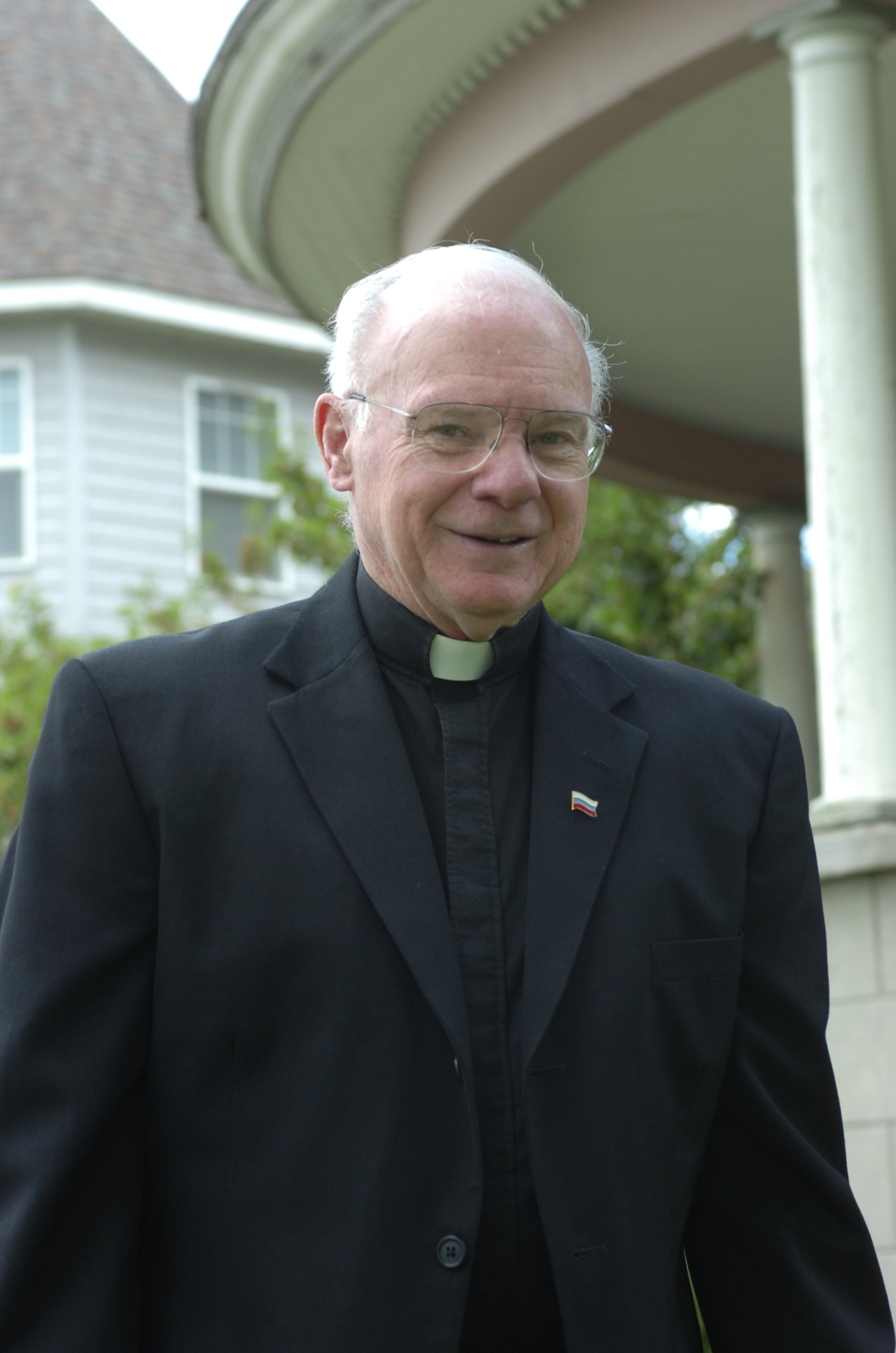 Photo of Father Waters stamding at the Gozaga Music Building